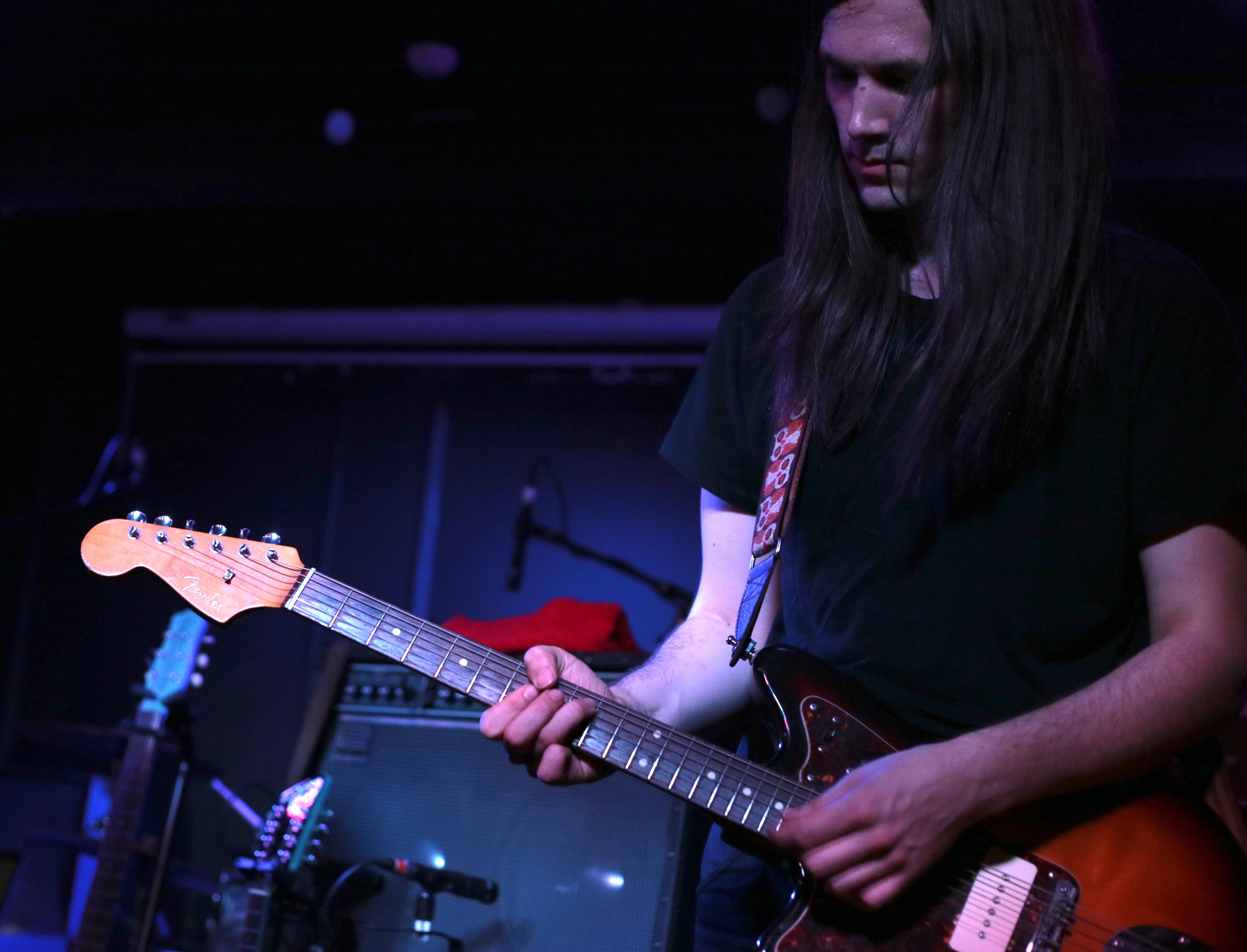 Matt Simms performing with Wire, sep 2013. Photo by Fergus Kelly.